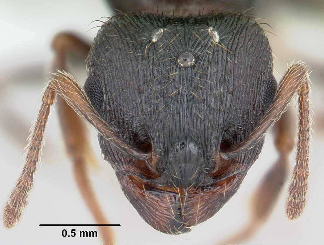 Head view of ant Tetramorium tsushimae specimen casent0103103.